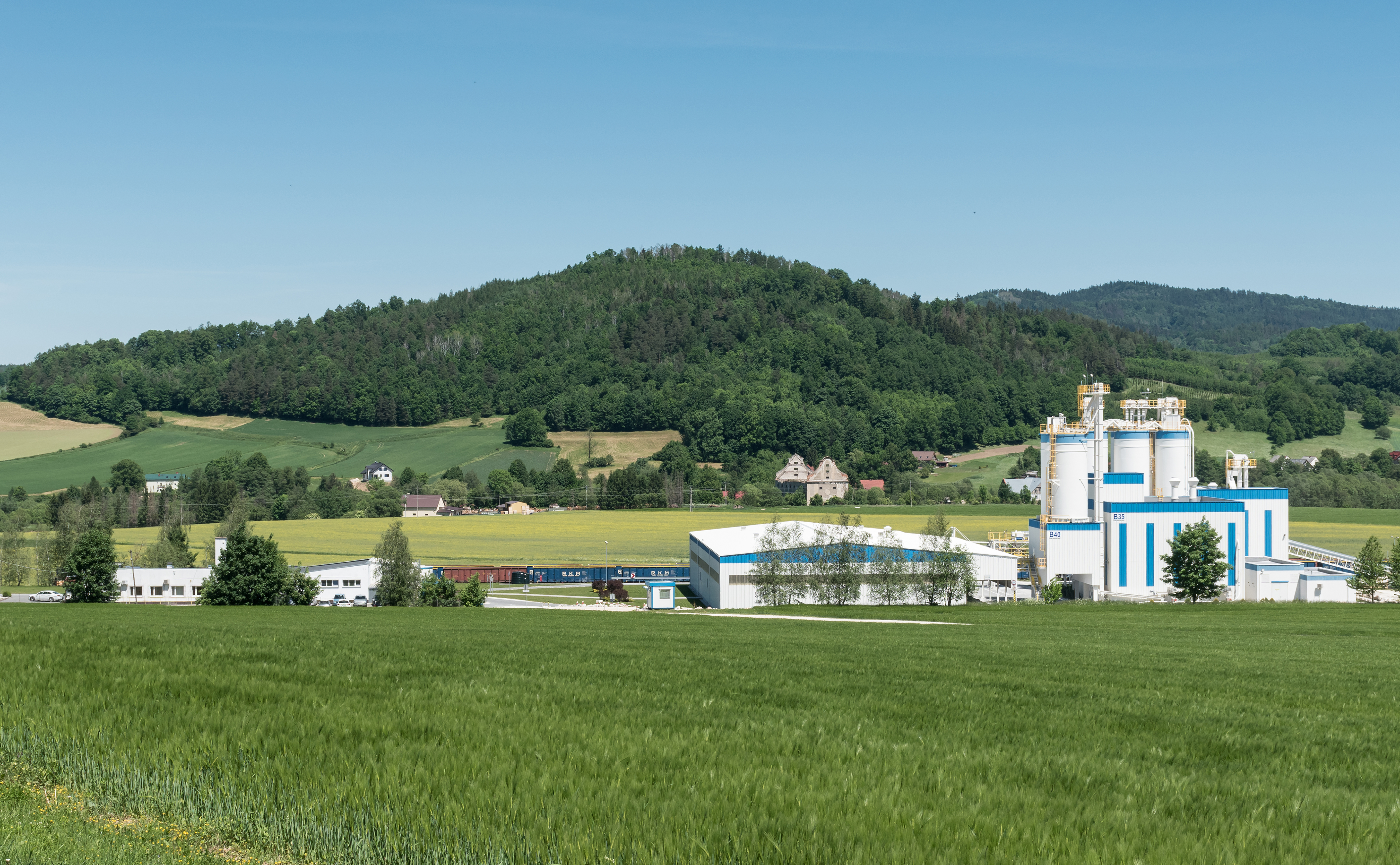 Romanowo mine